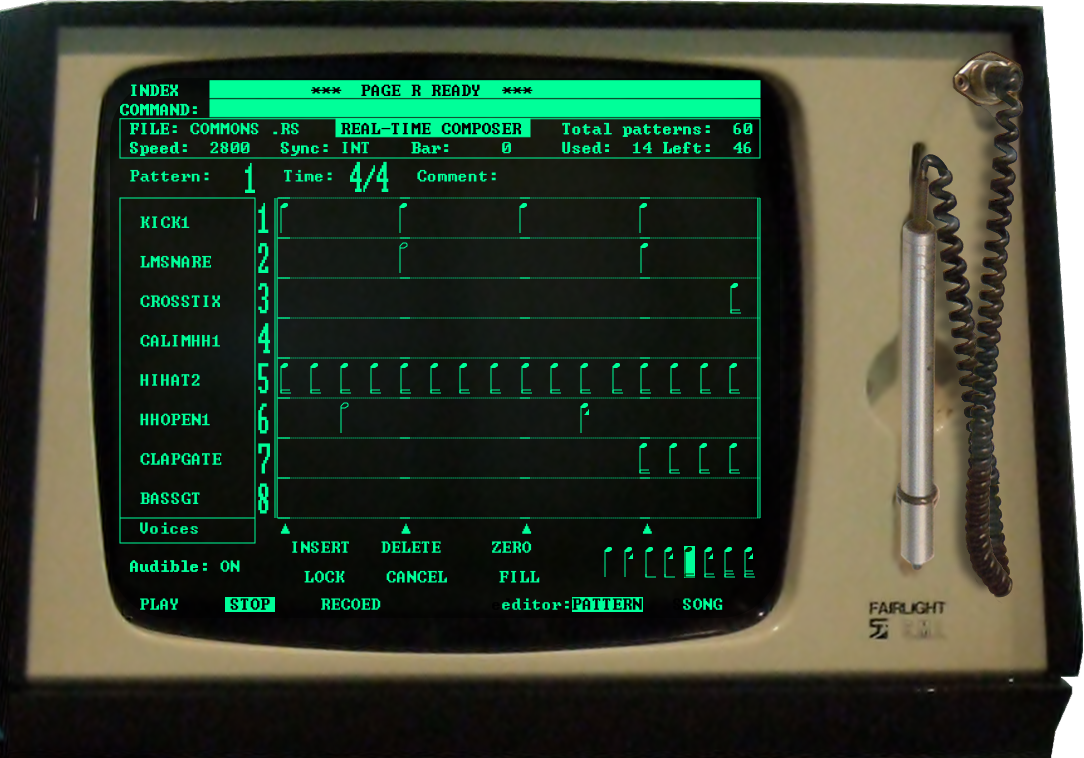 Page R (Real-Time Composer) on Fairlight CMI II